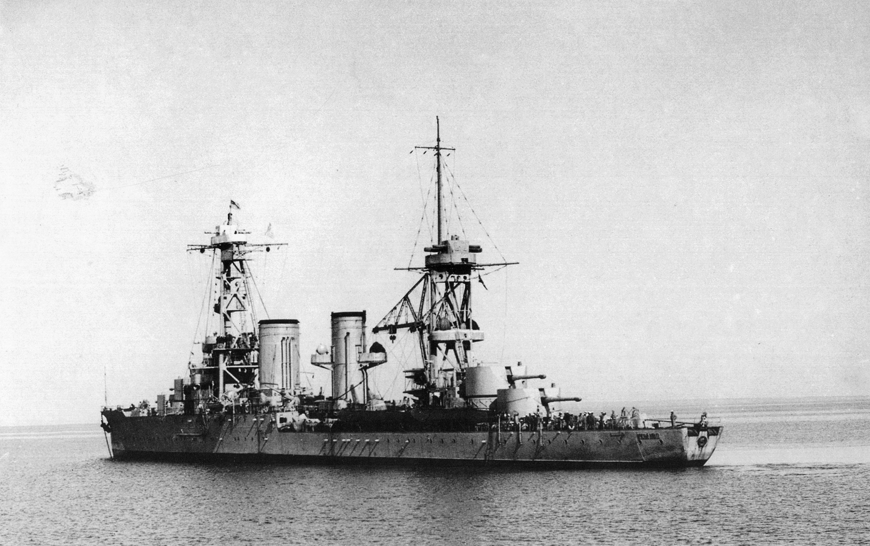 Soviet cruiser Krasnyy Kavkaz.